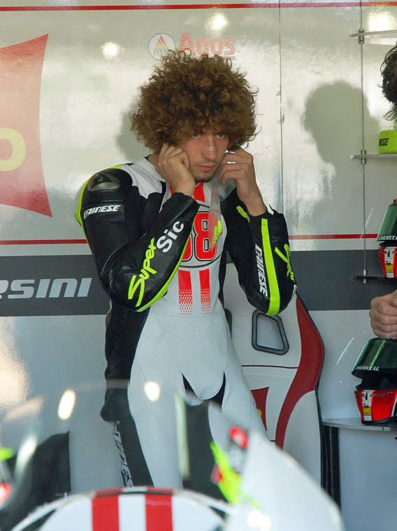 Marco Simoncelli 2009 Valencia ( Test Session after Grand Prix )